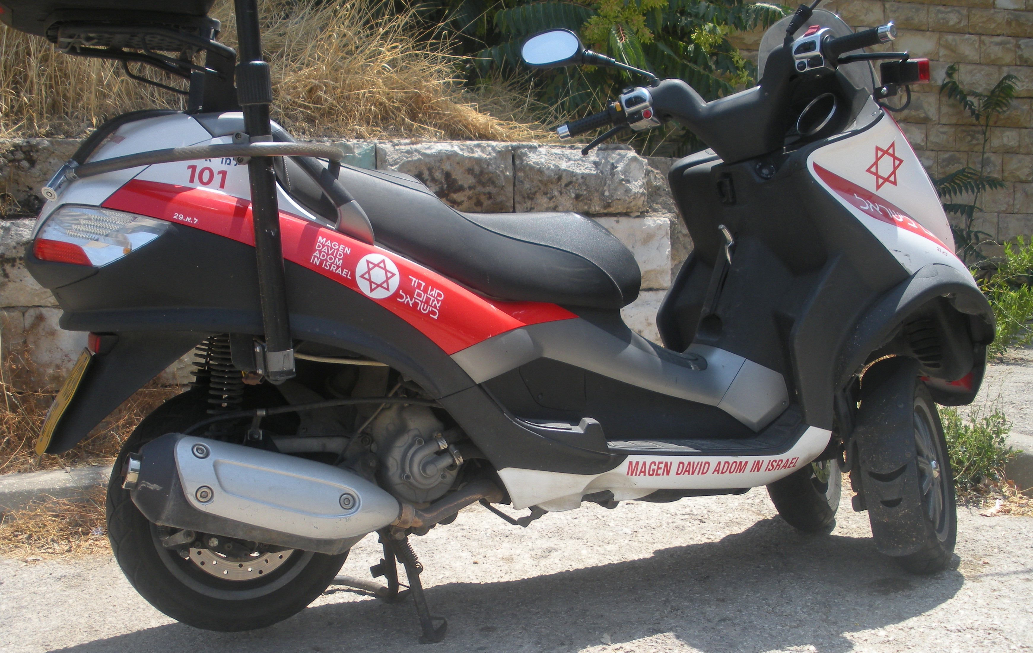 Magen David Adom motorcycle in Jerusalem, Israel